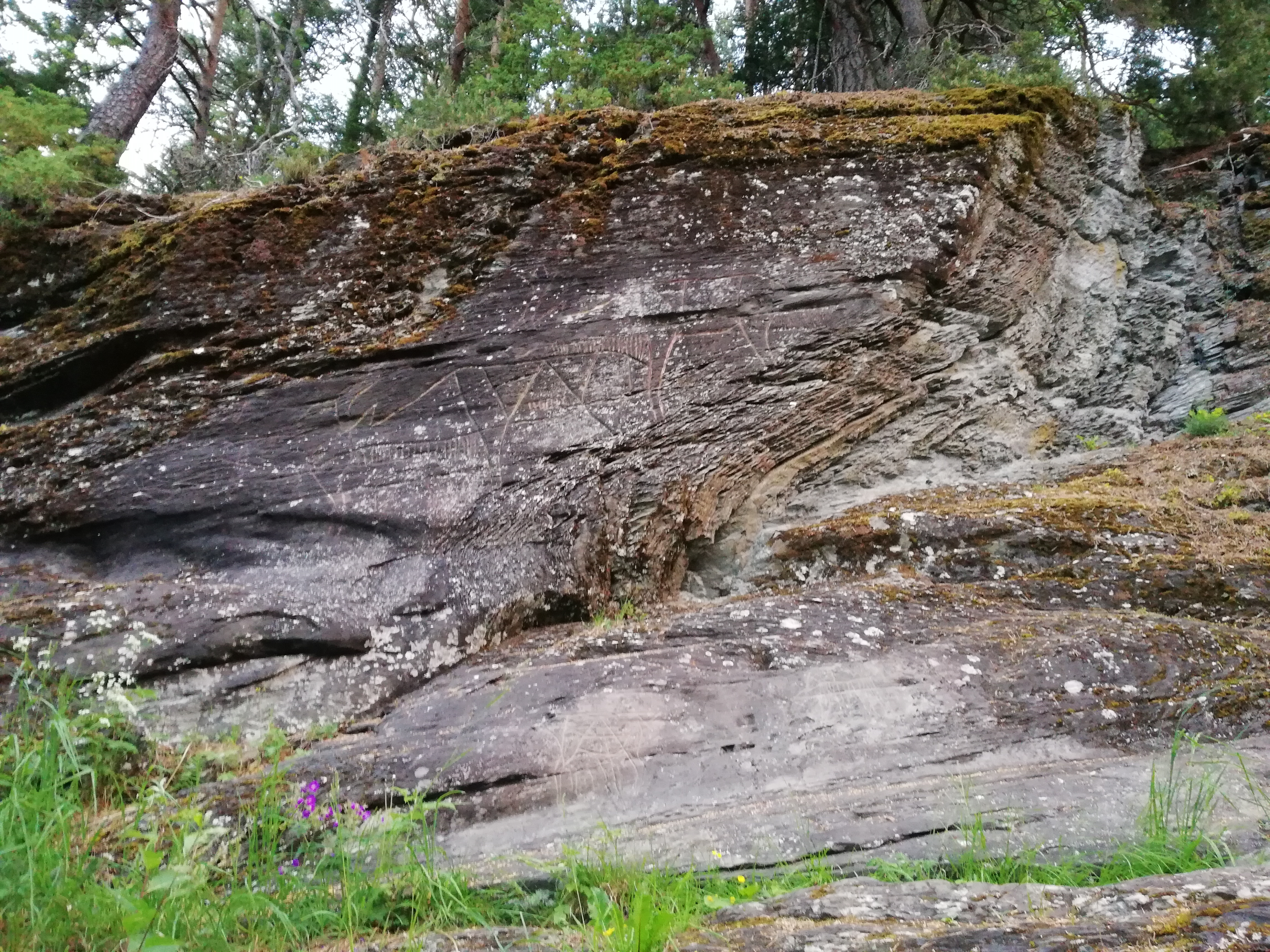 The rock carvings of a reindeer on Steinmohaugen, Hell in Stjoerdal